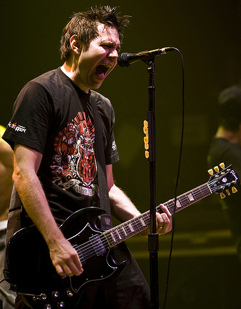 Matty Lewis and his guitar.